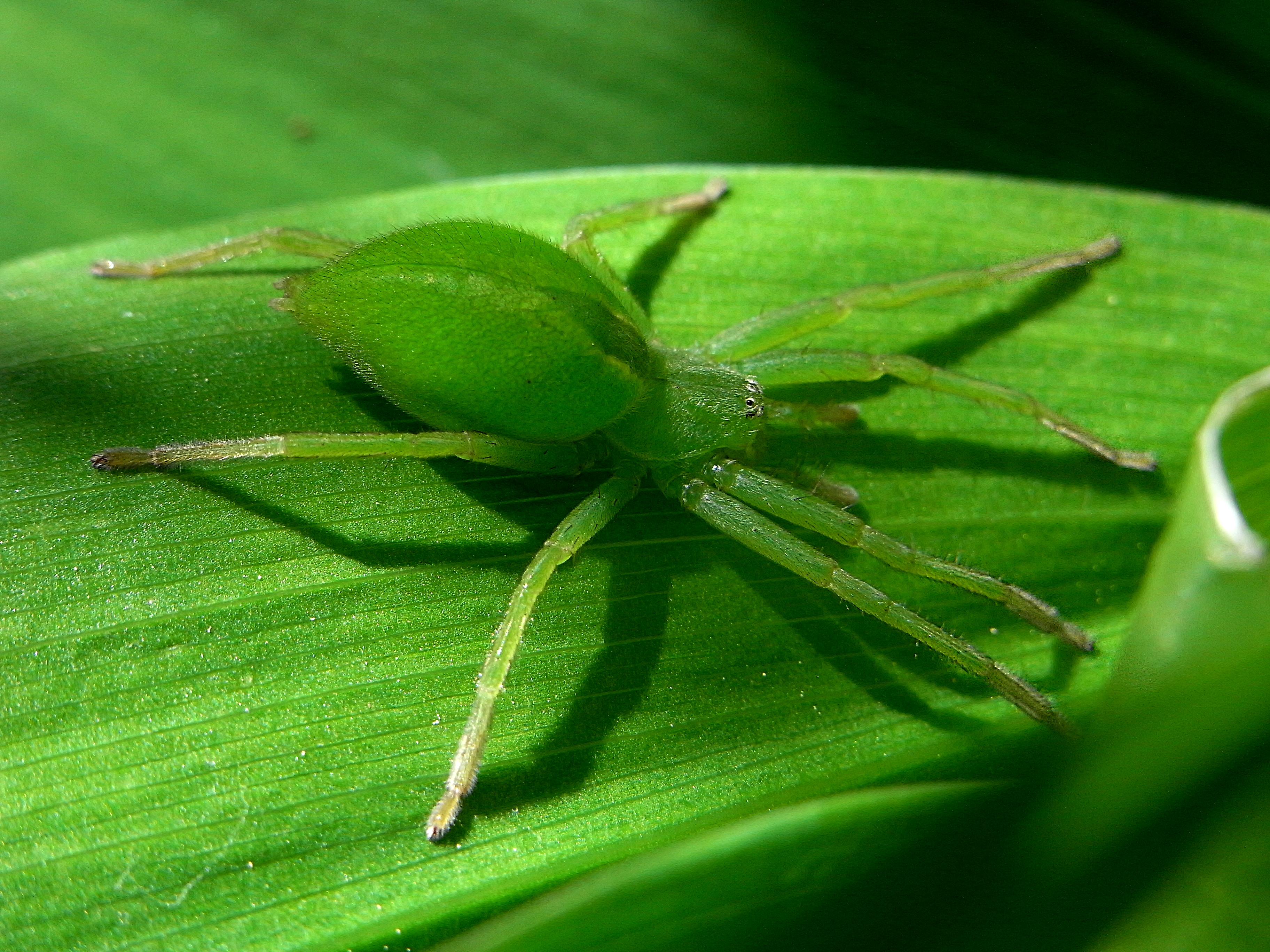 Female of Micrommata virescens from Southern Germany Ricoh R8